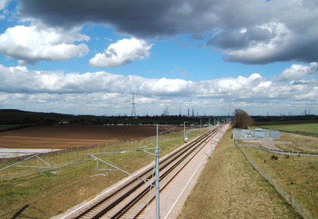 Channel Tunnel Rail Link, Spur from Fawkham Junction (Kent) to High Speed 1, Near Westwood